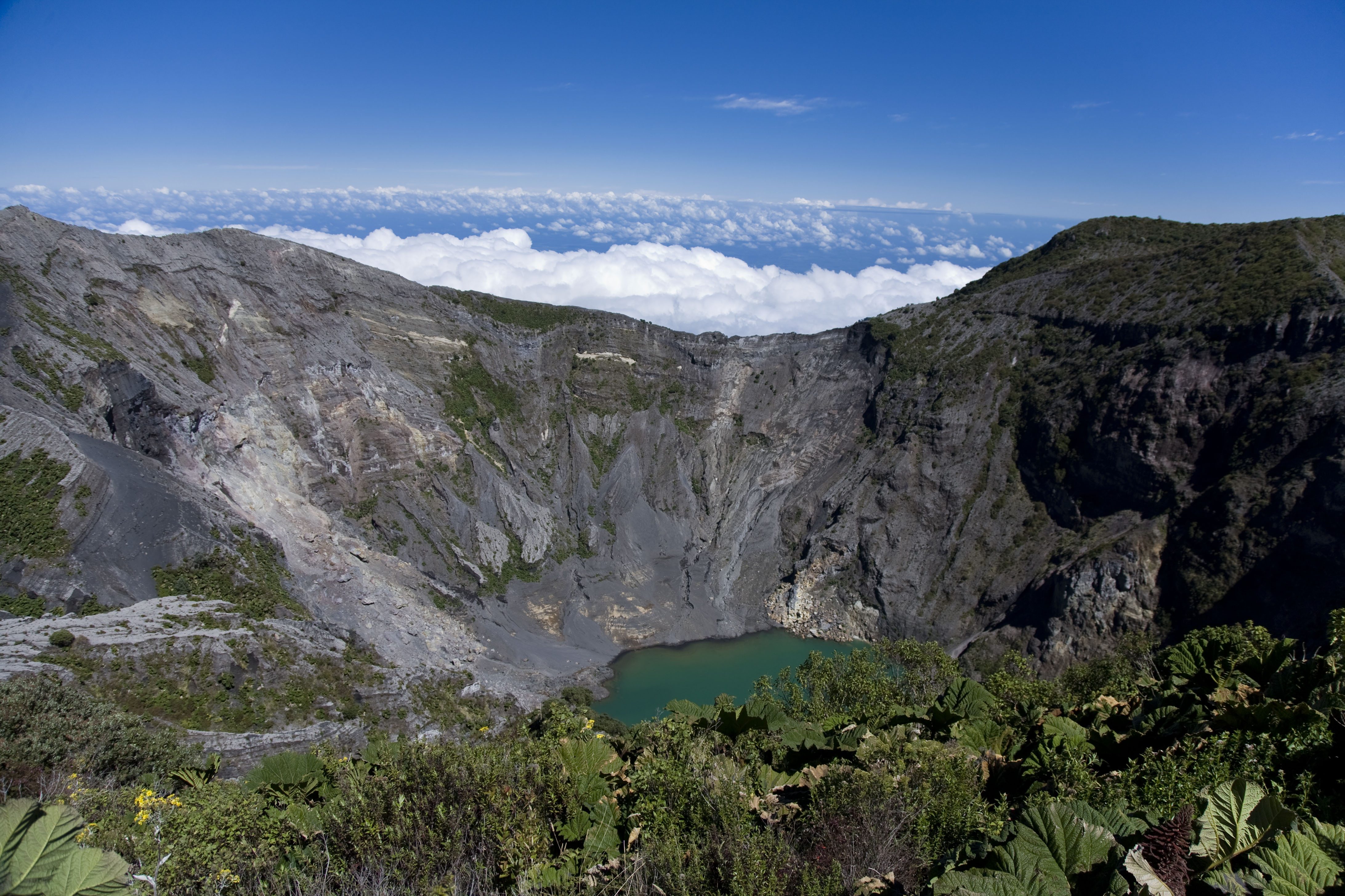 Irazu Volcano Costa Rica